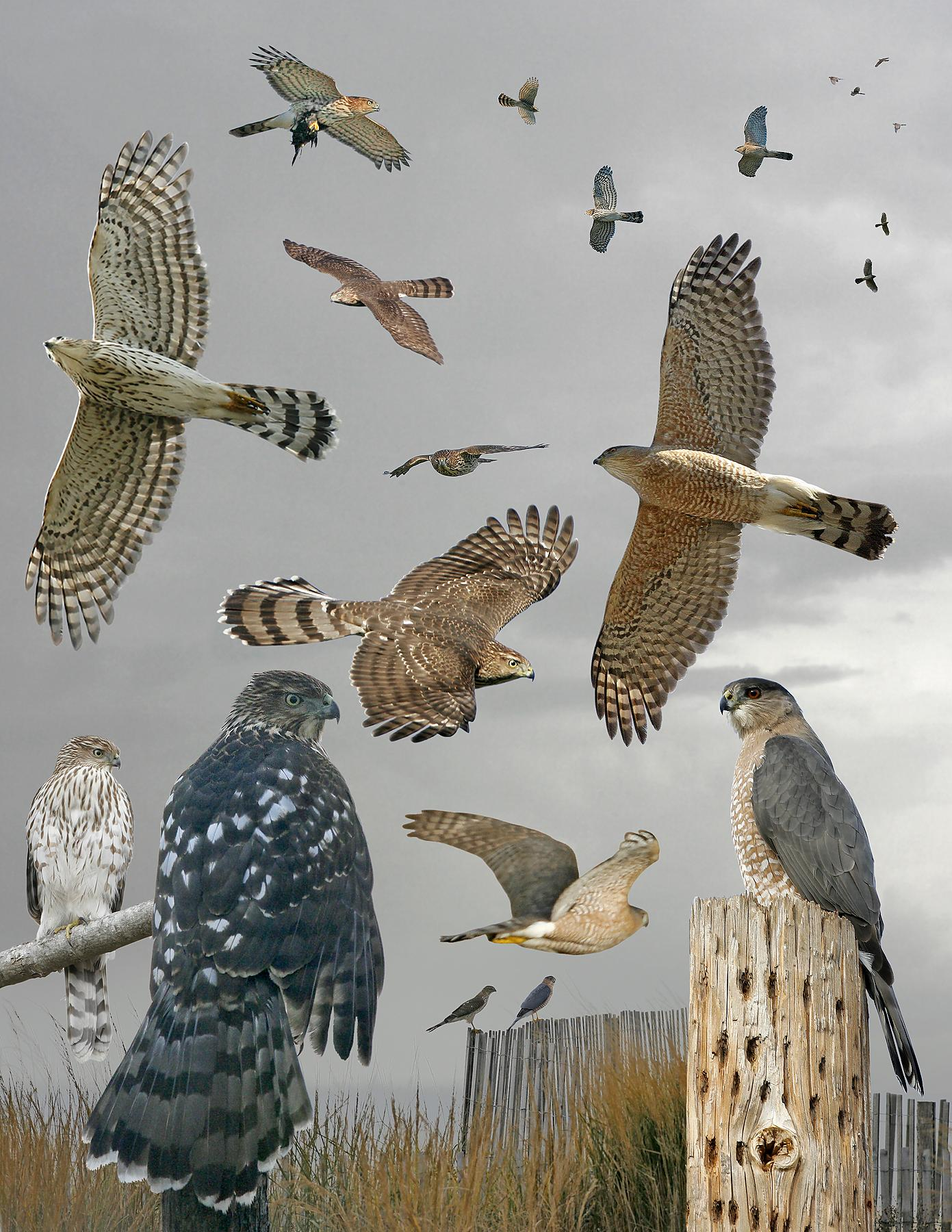 Coopers Hawk From The Crossley ID Guide Eastern Birds